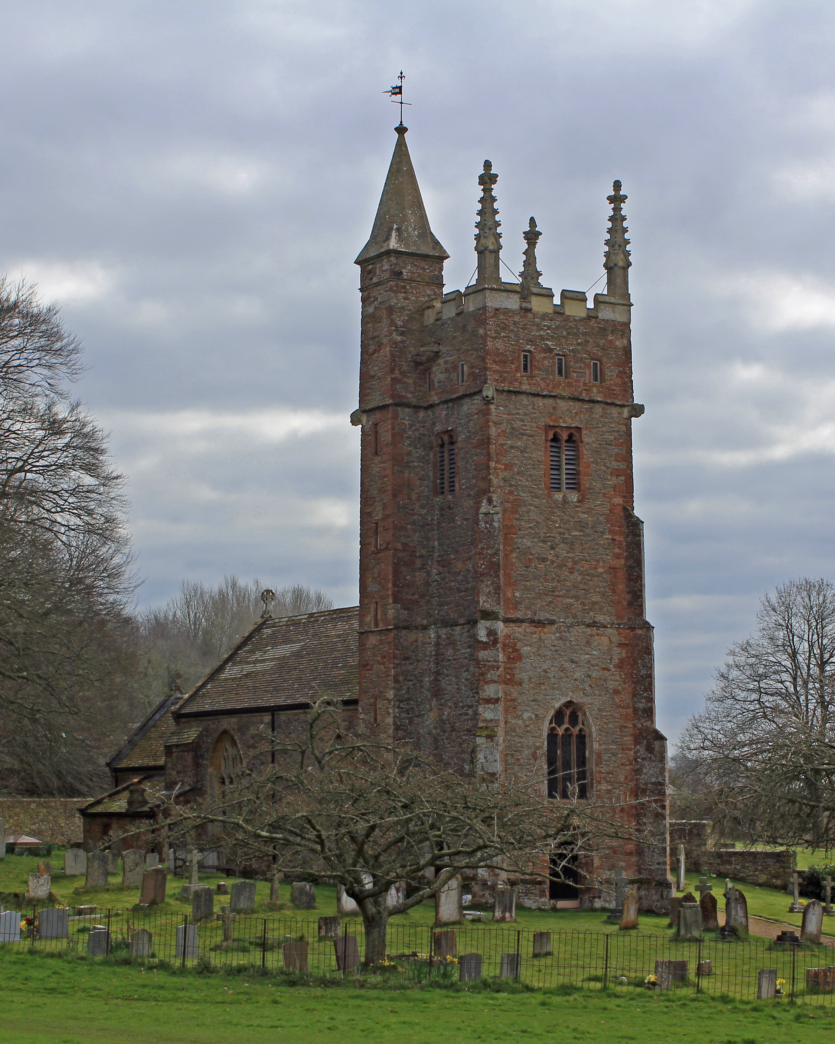 Parish church of St Thomas of Canterbury, Cothelstone, Somerset, seen from the northwest